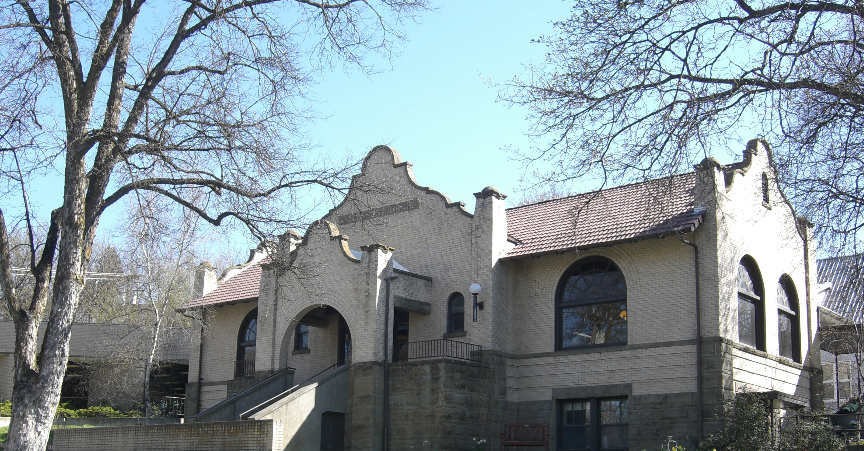 Moscow Public Library — in Moscow, central−north Idaho. The Mission Revival Style Carnegie library opened in 1906. On the National Register of Historic Places in Latah County, Idaho. Credits Robbie Giles©